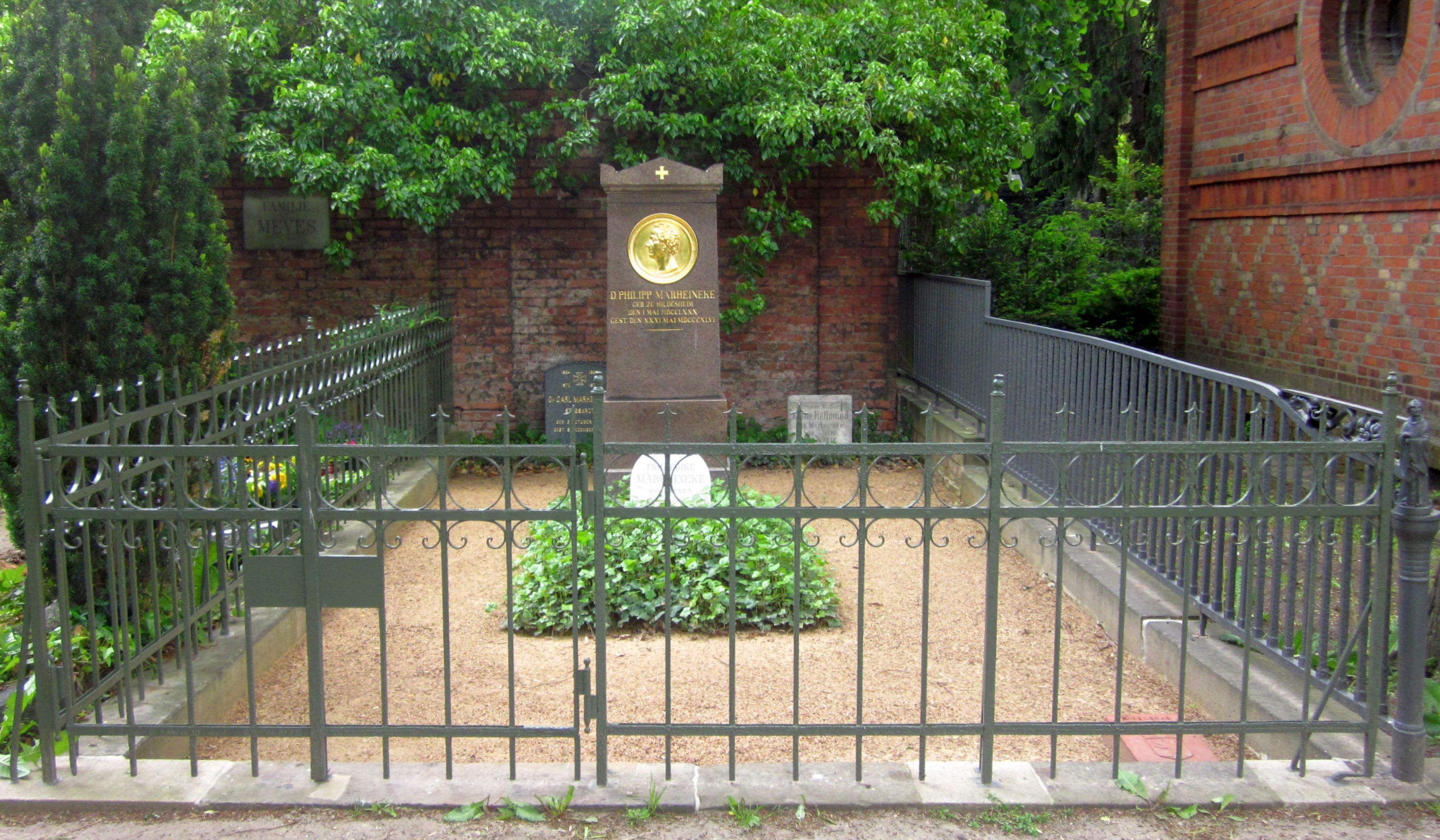 Grave of the Protestant theologian Philipp Konrad Marheineke (1780-1846) on the Dreifaltigkeitsfriedhof II at Bergmannstraße in Berlin-Kreuzberg. Grave of honor of the State of Berlin.